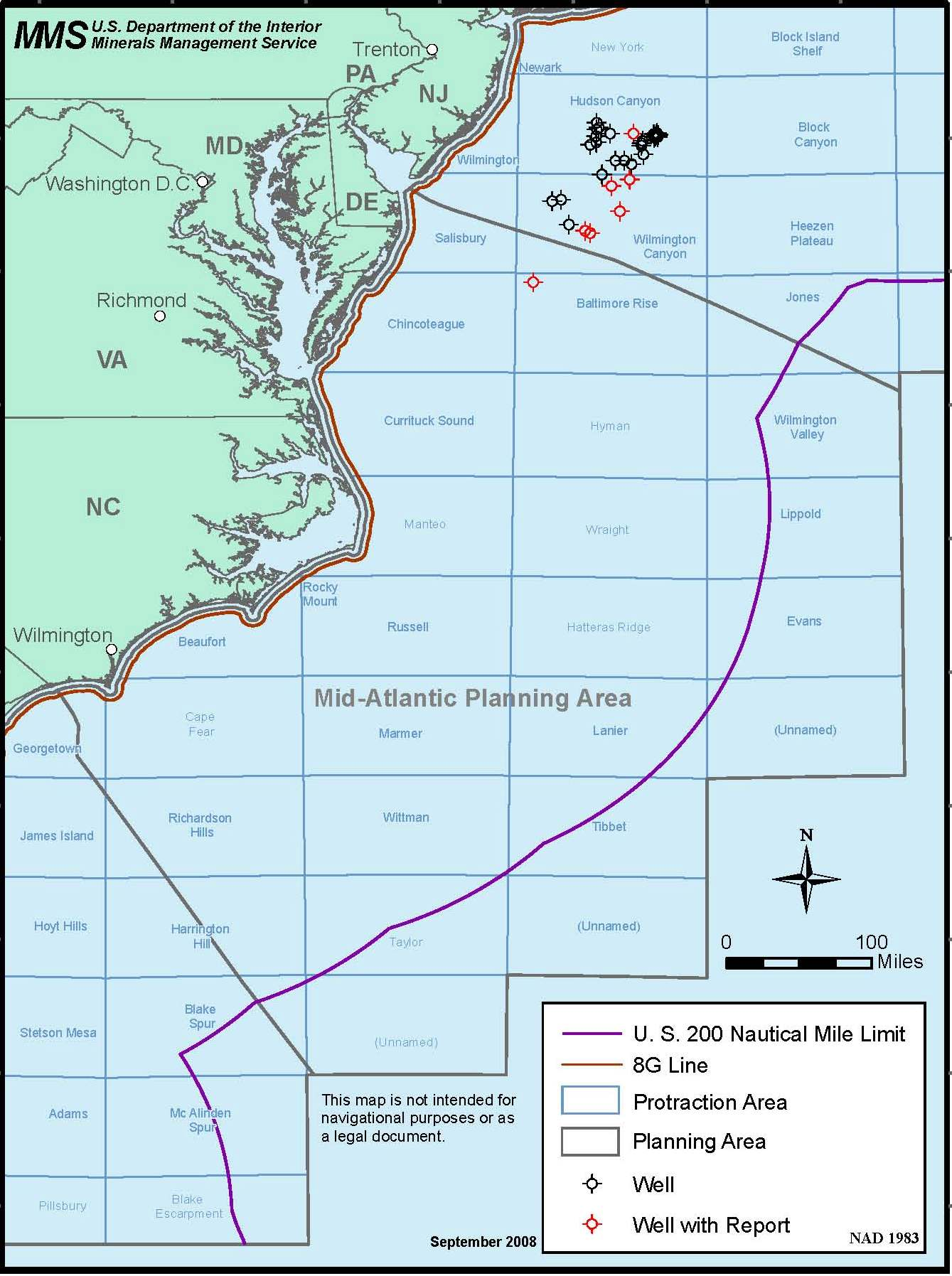 Map showing oil and gas exploratory wells off the US mid-Atlantic coast